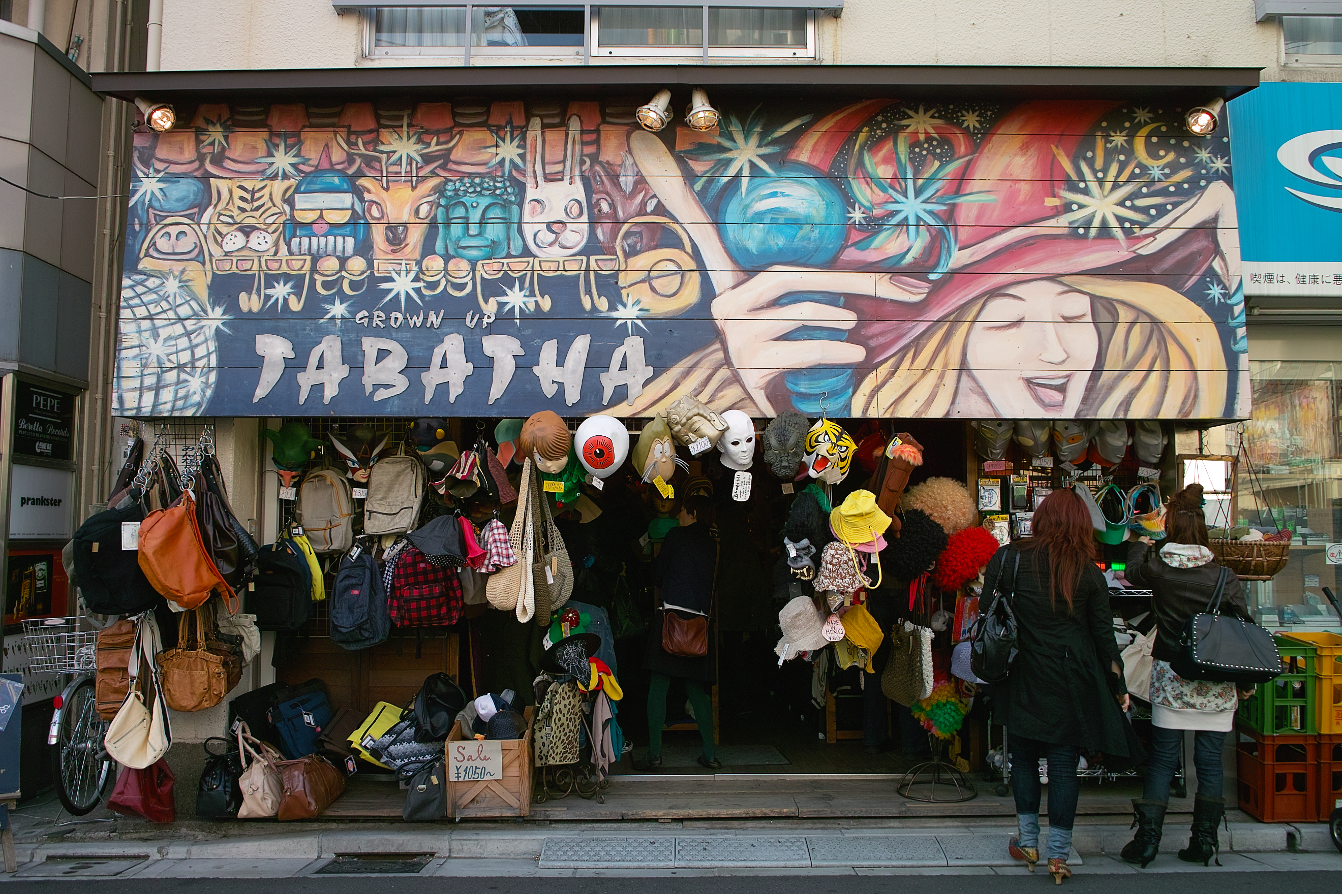 Small store full unique costumes representing the spirit of Shimokitazawa. Grown Up Tabatha